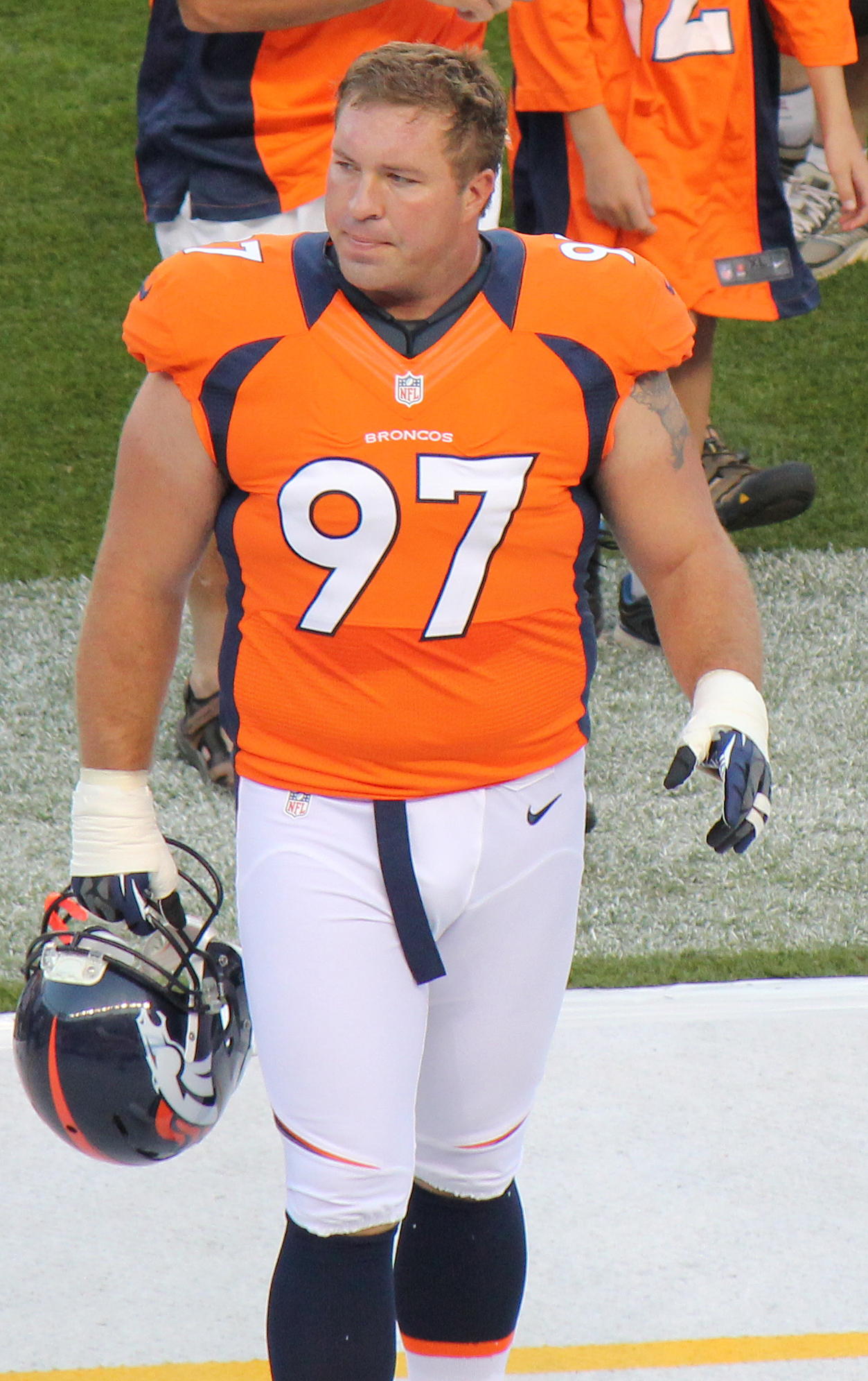 Justin Bannan, a player on the National Football League.